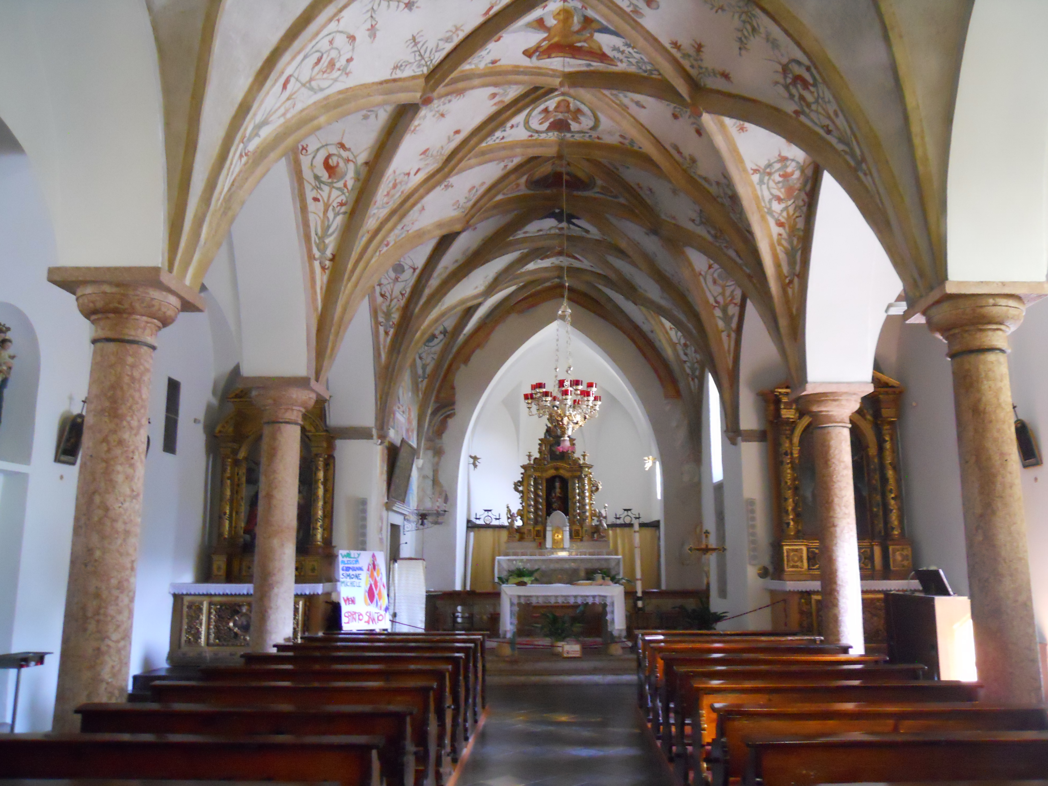 Piazzo, Segonzano - church of the Immaculate, central nave